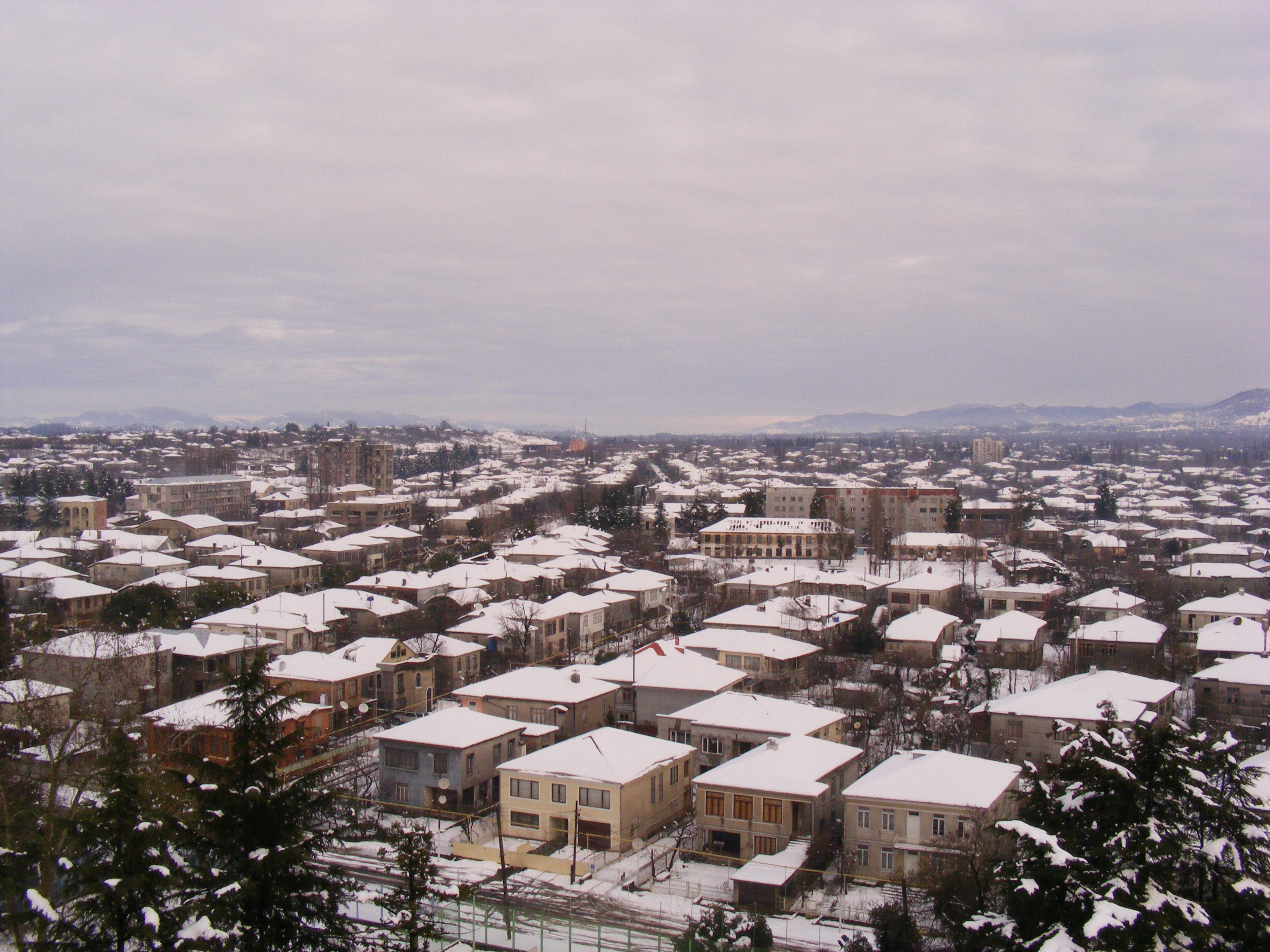 Ozurgeti in winter